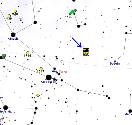 Pleiades map